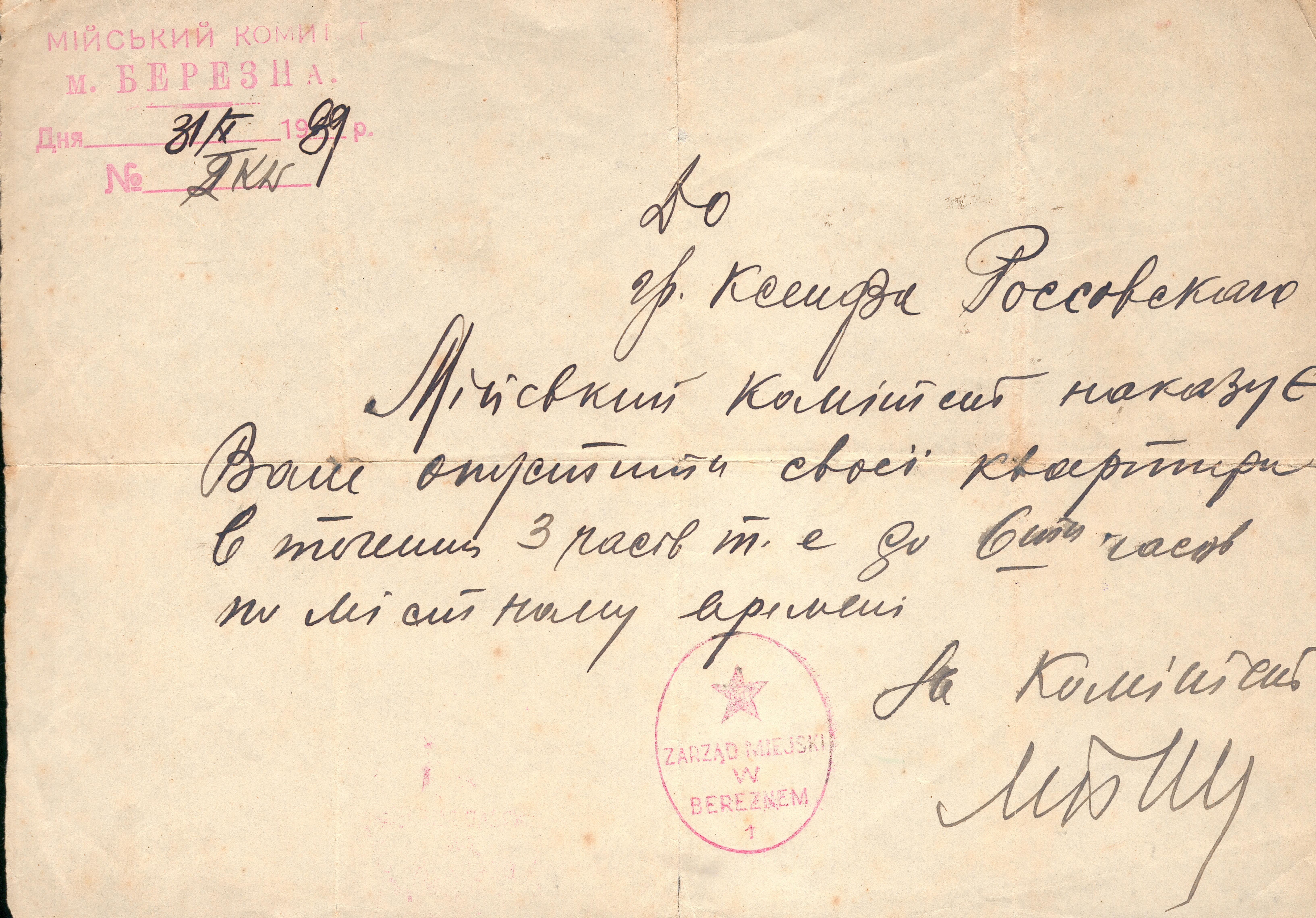 father Mieczysław Rossowski, order to leave the parish within 3 hours, given by sovjet political police NKWD in November 1939